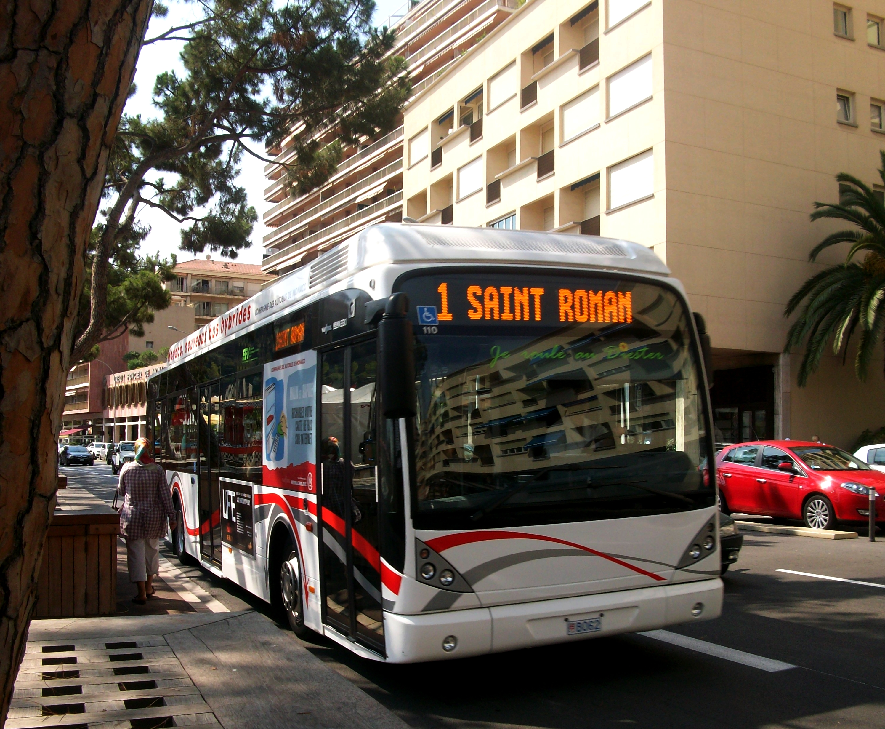 Bus CAM, Monaco